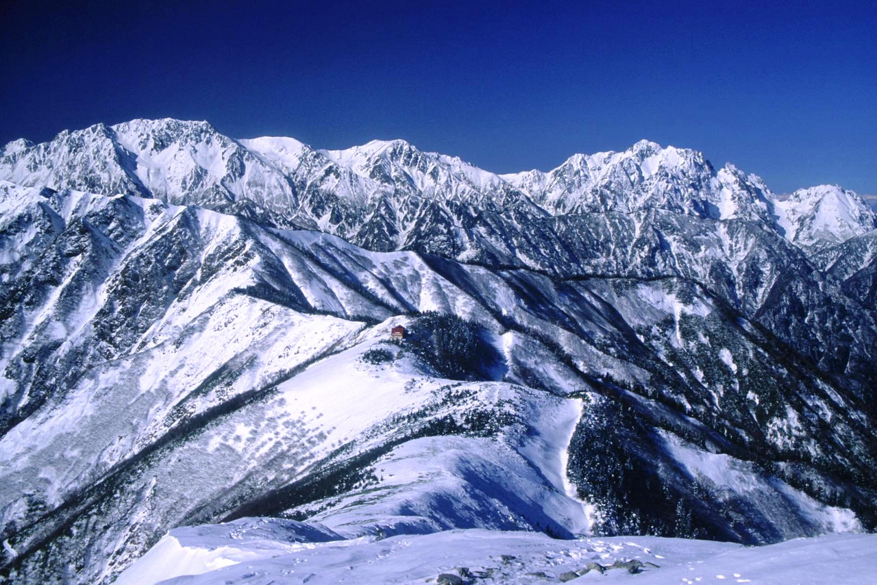 Mount Tate, Mount Masago, Mount Betsu(Bessan), and Mount Tsurugi with the Mountain hut (Taneike Sanso in center) seen from Mount Jii, in Hida Mountains, Japan.